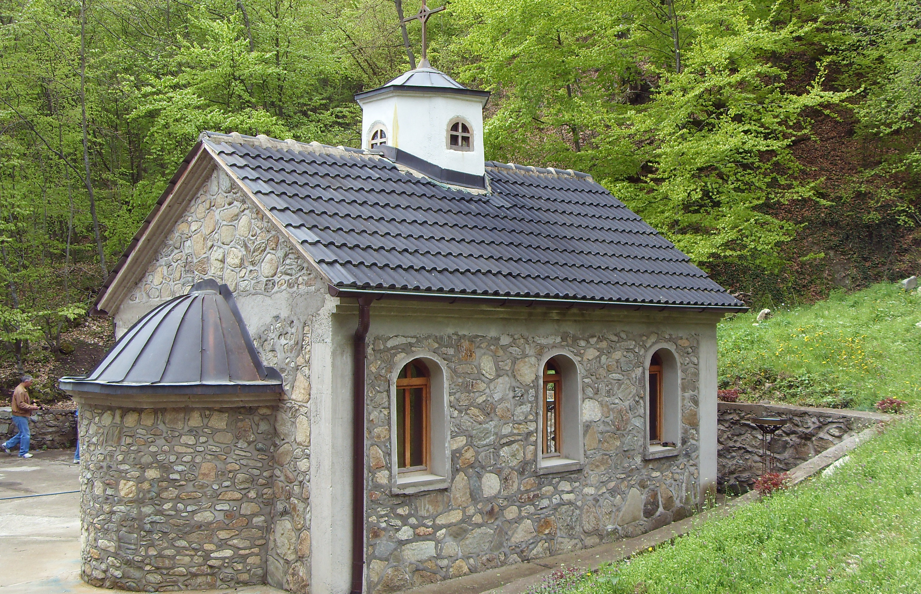 The church St. Petka, near the Belovište River, Belovište, Macedonia.